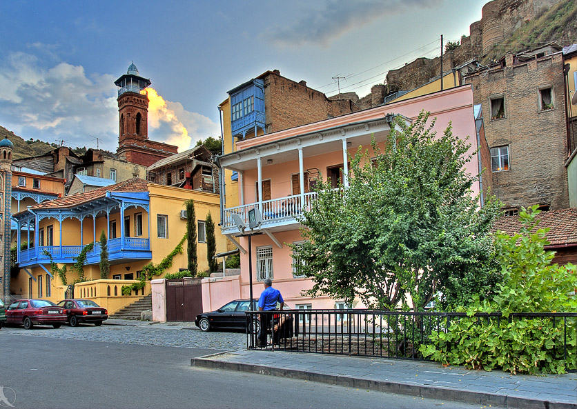 Mosque in Tbilisi